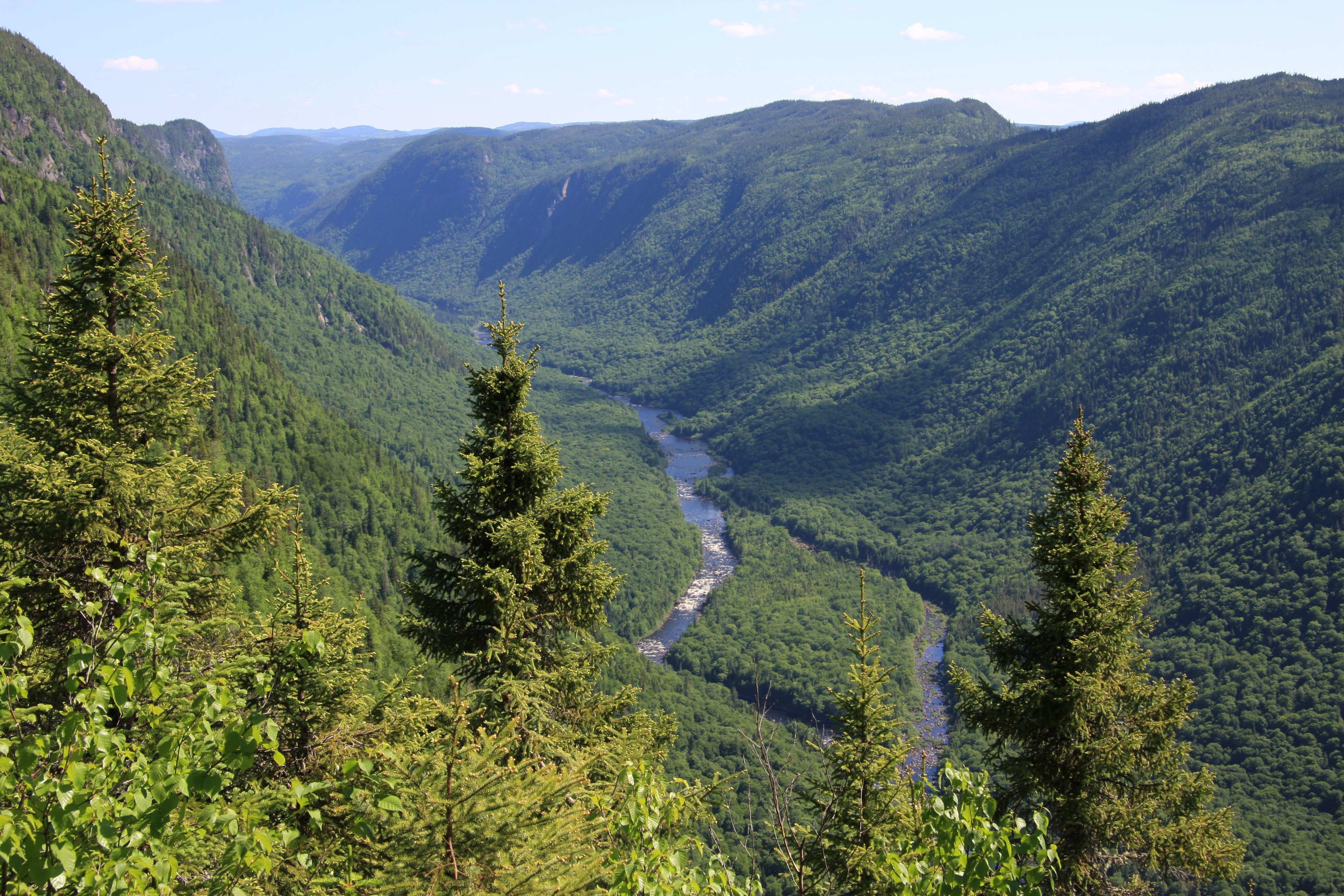 Scenic view of Jacques-Cartier River valley from Andante montain, Jacques-Cartier National Park, Quebec, Canada